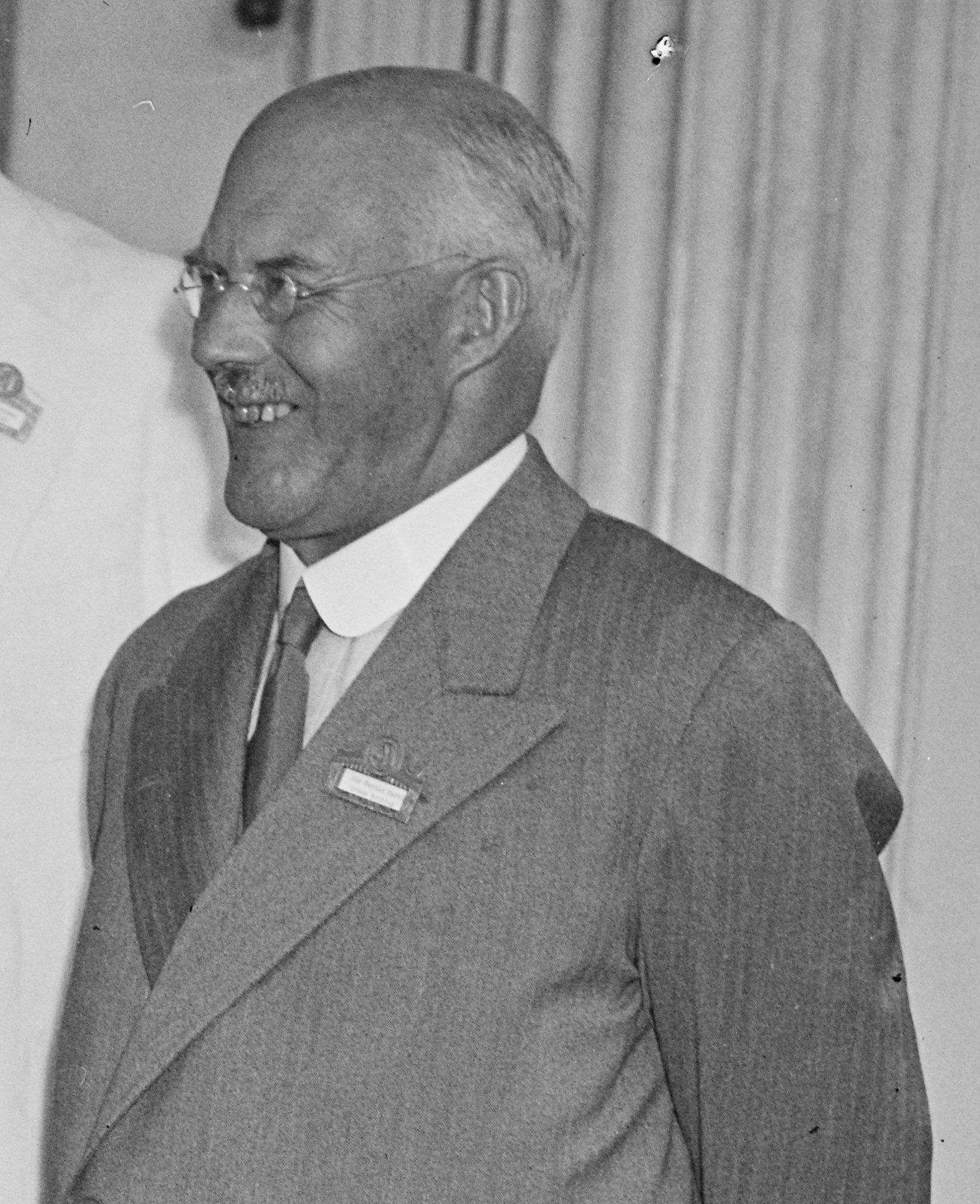 Title: World power conferees visit Roosevelt, Washington, D.C., September 11. Sir Harold Hartley, Chairman of the British Delegation. Abstract/medium: 1 negative : glass ; 4 x 5 in. or smaller